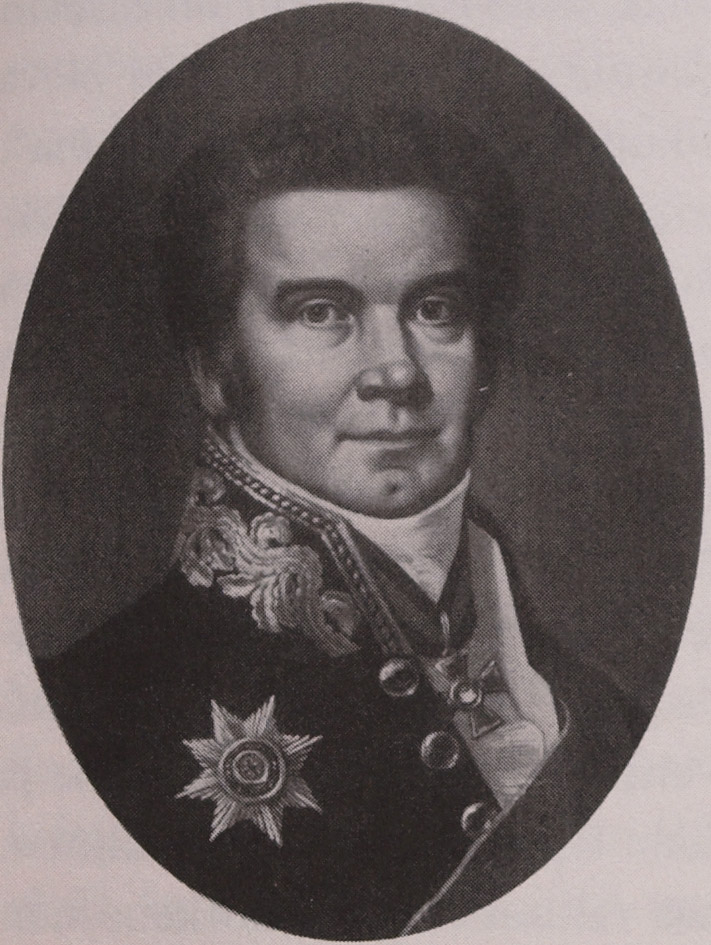 Finnish Senator, todellinen valtioneuvos (rank equal to Gen Maj) Gustaf Wilhelm Ladau (1765–1833). One of the top conspirators in the Anjala conspiracy, and the only to escape without any real consequences (lost only his career in Swedish Military).